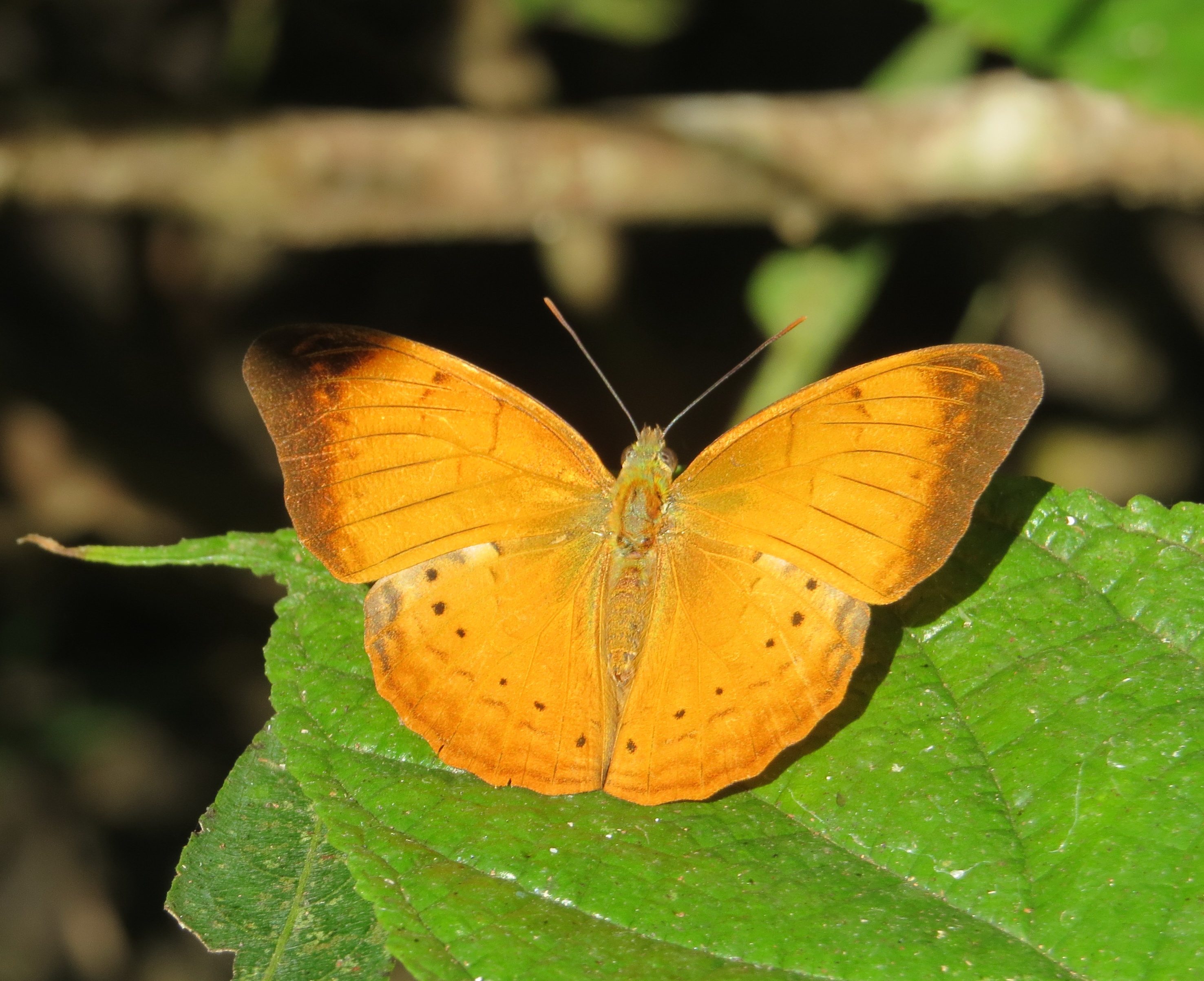 Cirrochroa thais Fabricius, 1787 – Tamil Yeoman at Aralam Wildlife Sanctuary